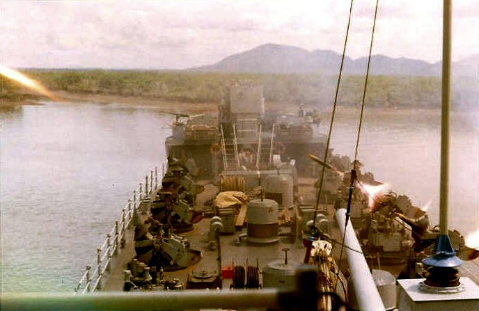 The U.S. Navy inshore fire support ship USS White River (LFR-536) firing rockets in the Rung Sat Special Zone (RSSZ), South Vietnam, in 1969.